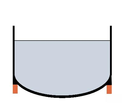 Scheme of the water-reservoir type "hanging-bottom-reservoir"